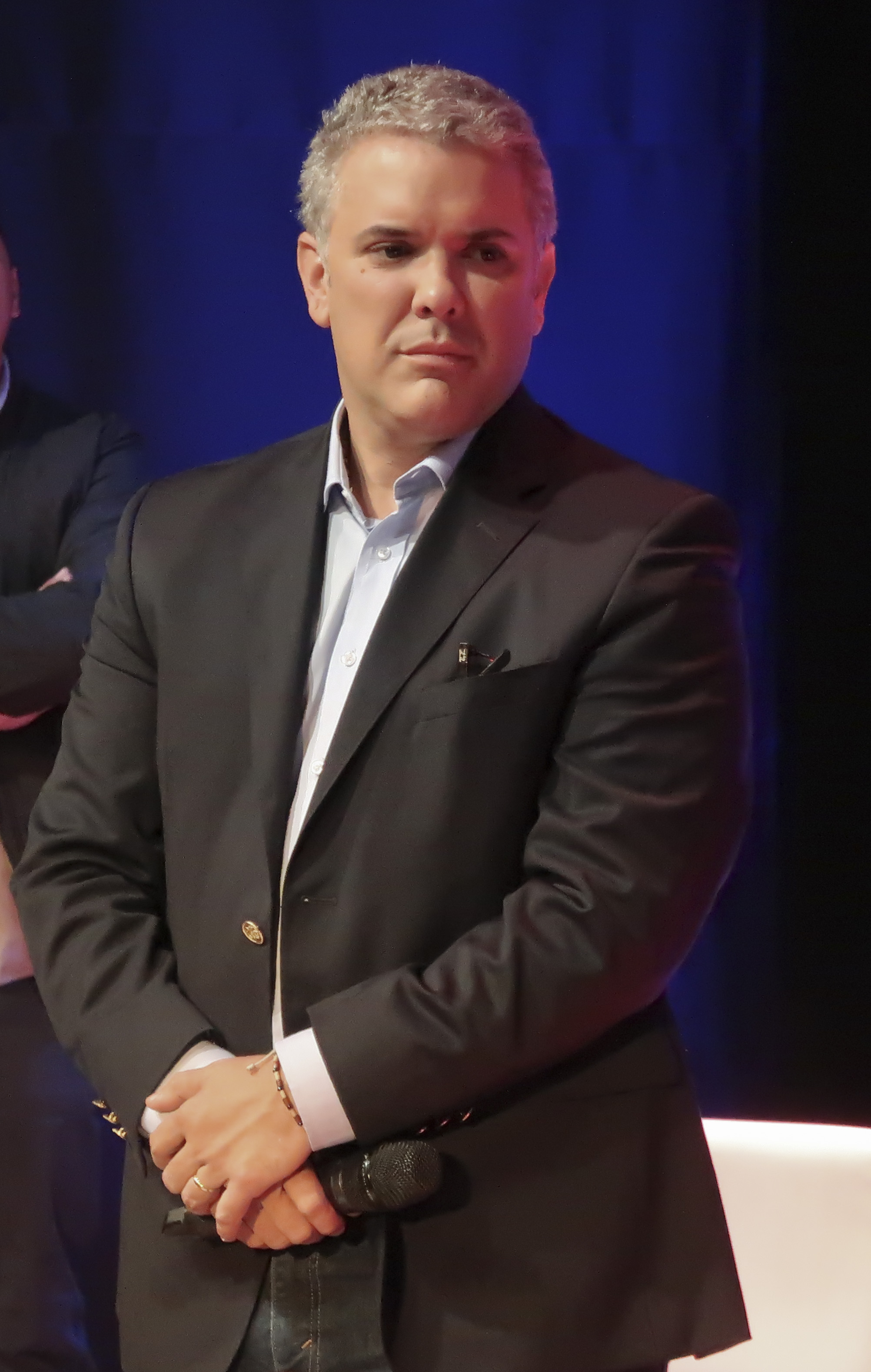 Ivan Duque, Centro Democrático, Colombia